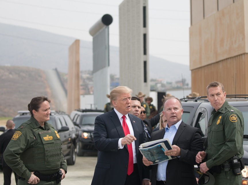 President Donald Trump reviewing U.S. Customs and Border Protection's wall prototypes on the border in Otay Mesa, California. The President was joined by Homeland Security Secretary Kirstjen Nielsen, CBP Acting Commissioner Kevin McAleenan, Acting U.S. Border Patrol Chief Carla Provost and San Diego Sector Chief Patrol Agent Rodney Scott. More info at .